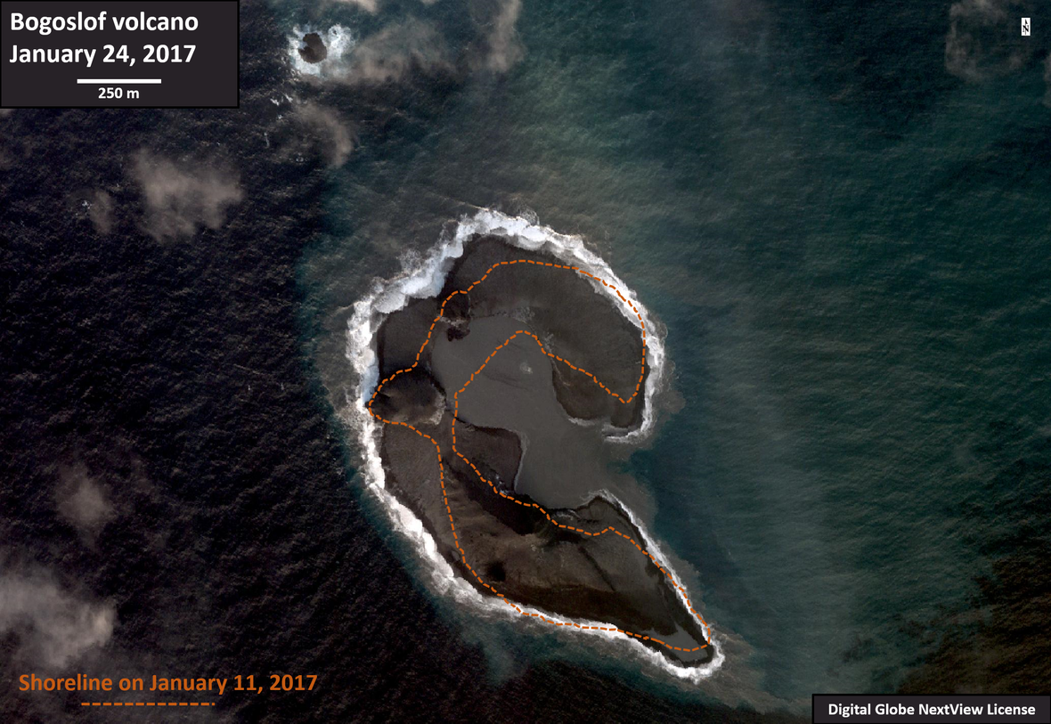 Analysis of shoreline changes at Bogoslof volcano due to eruptive activity between January 11 and 24, 2017. The base image is a Worldview-2 satellite image collected on January 24, 2017. The approximate location of the shoreline on January 11, 2017 is shown by the dashed orange line.